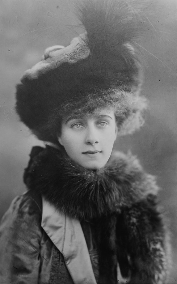 Portrait of Countess Granard, around 1910.